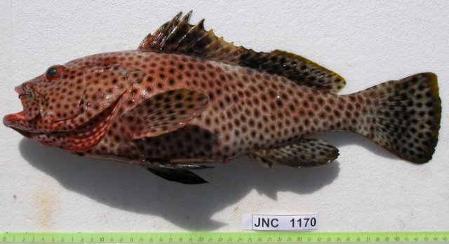 Epinephelus maculatus. Locality: Récif Le Sournois, off Nouméa, New Caledonia. Fork Length 430 mm, Weight 924 grams. Date 2004/06/29